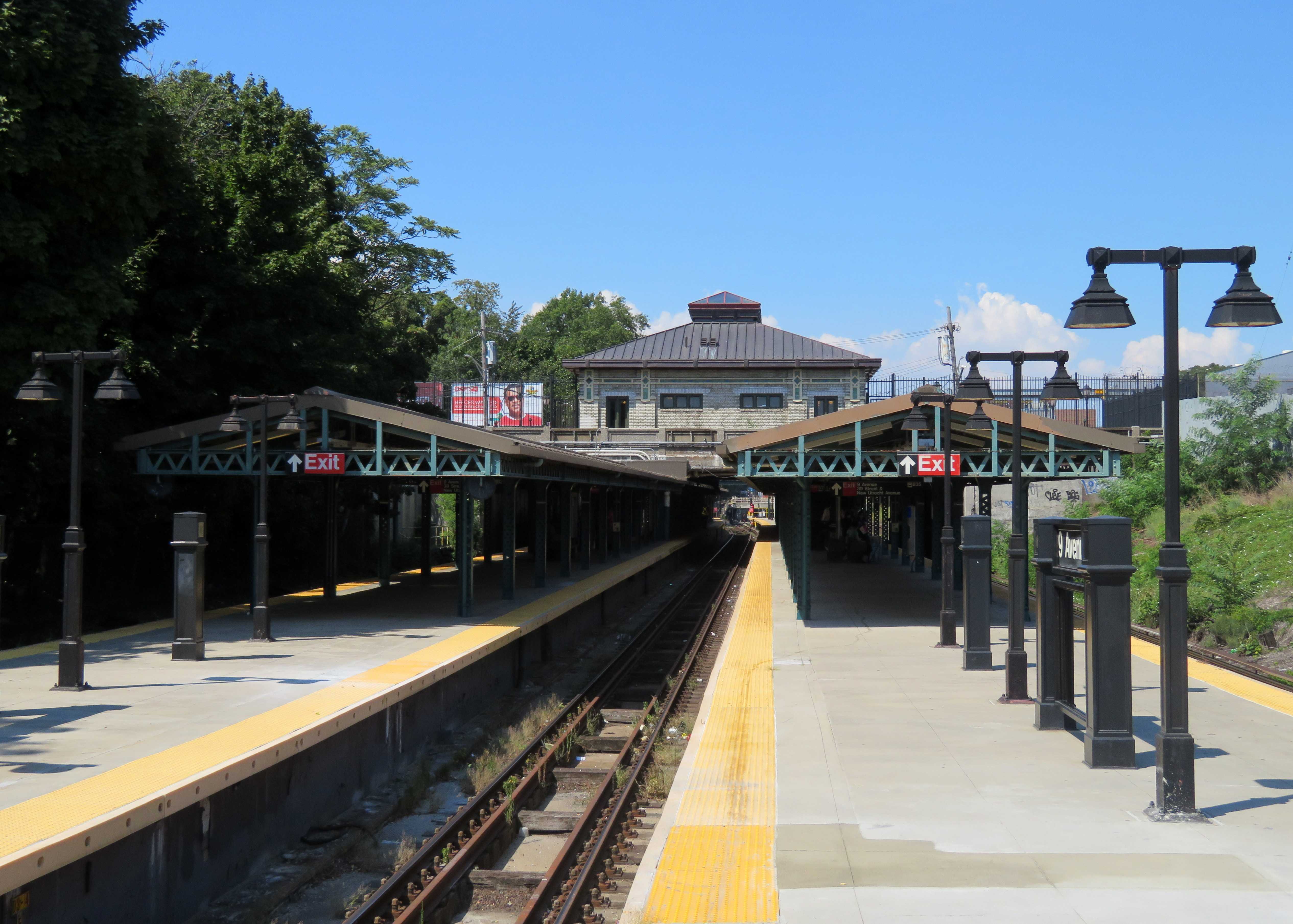 Ninth Avenue station from the Manhattan-bound platform in September 2018